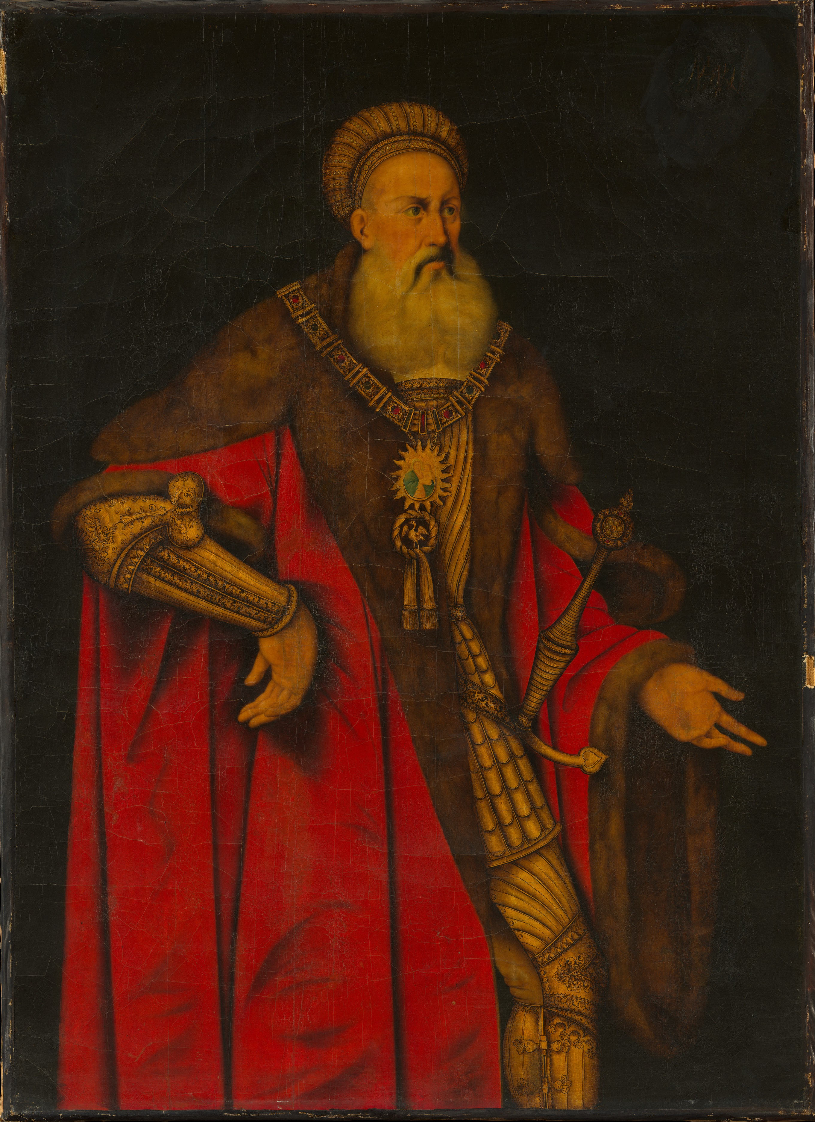 Portrait of Frederick I, Margrave of Brandenburg-Ansbach (1460–1536)